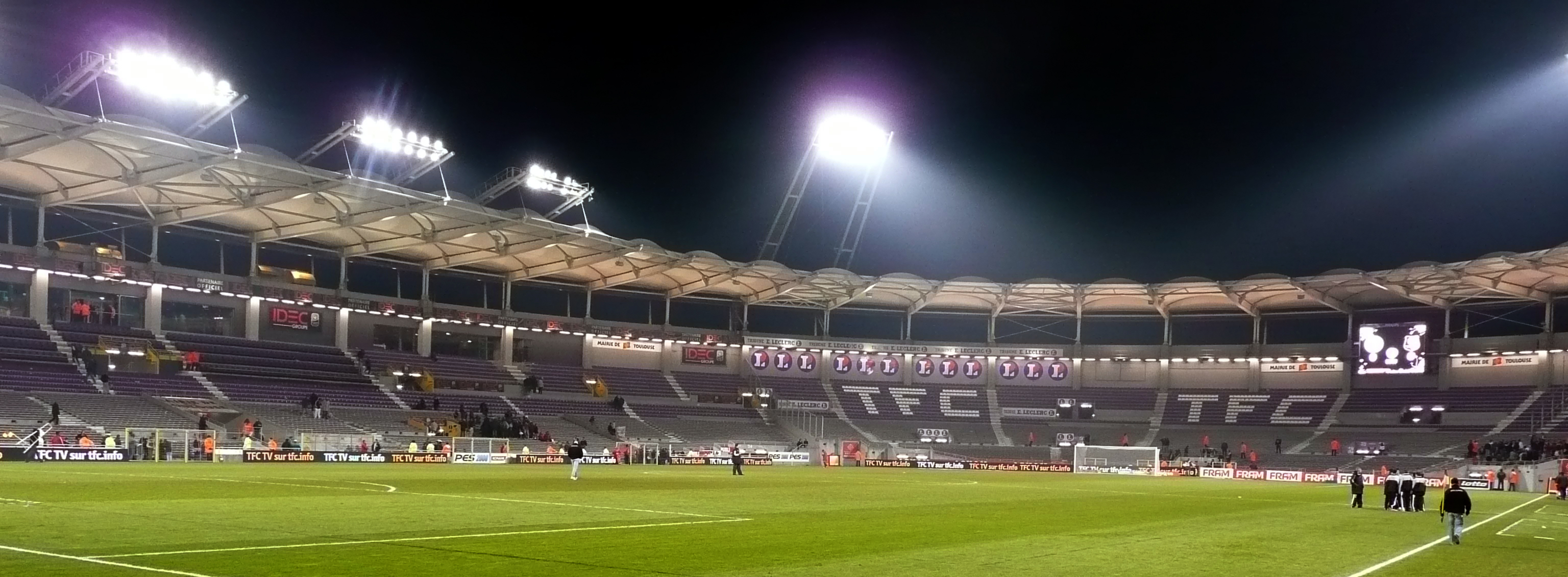 Stadium municipal de Toulouse (after Toulouse - Rennes)